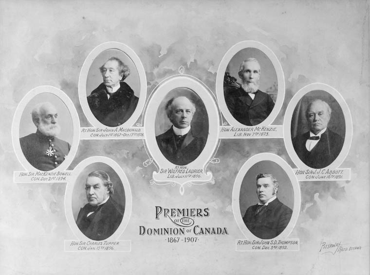 Premiers of the Dominion of Canada, 1867-1907. This is an old image of several Prime Ministers of Canada taken from from the website of the Libraries and Archives Canada which lists its copyright as expired. Item part of: Samuel J. Jarvis collection. GOVERNMENT - FEDERAL: Abbott, John J.C., 1821-1893 Bowell, Mackenzie, Sir, 1823-1917 Laurier, Wilfrid, Sir, 1841-1919 Macdonald, John Alexander, Sir, 1815-189 Mackenzie, Alexander, 1822-1893 Thompson, John S.D., Sir, 1844-1894 Tupper, Charles, Sir, 1821-1915 REFERENCE NUMBERS ACCESSION NUMBER: 1953-045 REPRODUCTION: PA-024961 (copy negative number); CONSULTATION/REPRODUCTION: USE/REPRODUCTION:Graphics: photos; Restrictions on access: Nil Image Credit: Samuel J. Jarvis / Library and Archives Canada / PA-024961